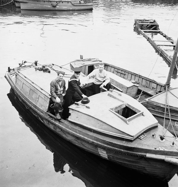 H.M.C.S. Haida 's motor cutter, which was used to rescue survivors of the sinking of H.M.C.S. Athabaskan on 29 April 1944. (L-R): Stoker William Cummins, Leading Seaman William MacLure, Able Seaman Jack Hannam.